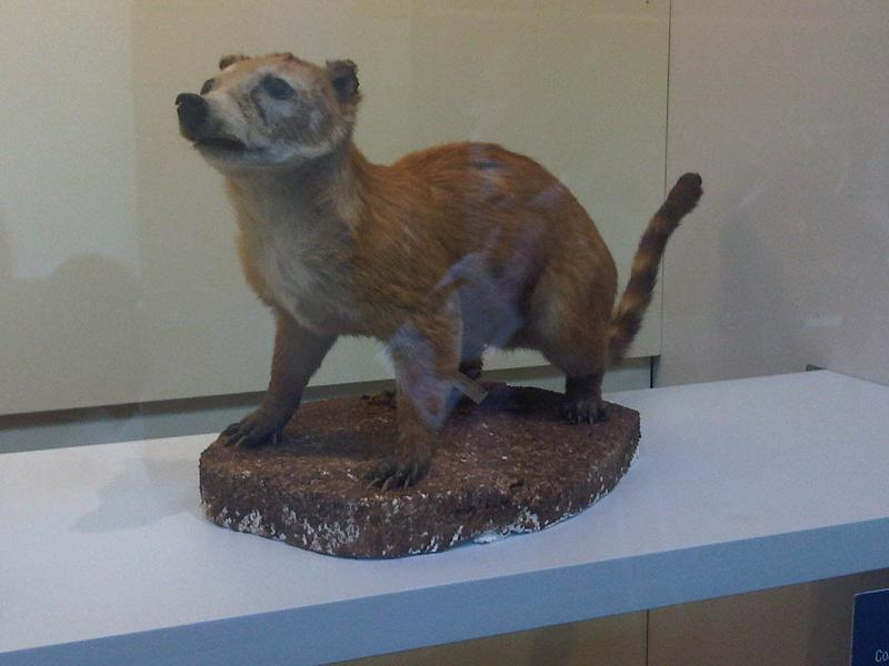 Taxidermied South American Coati or Ring-tailed Coati (Nasua nasua) at the Natural History Museum in London, England.